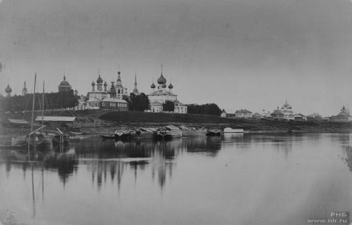 Uglich.